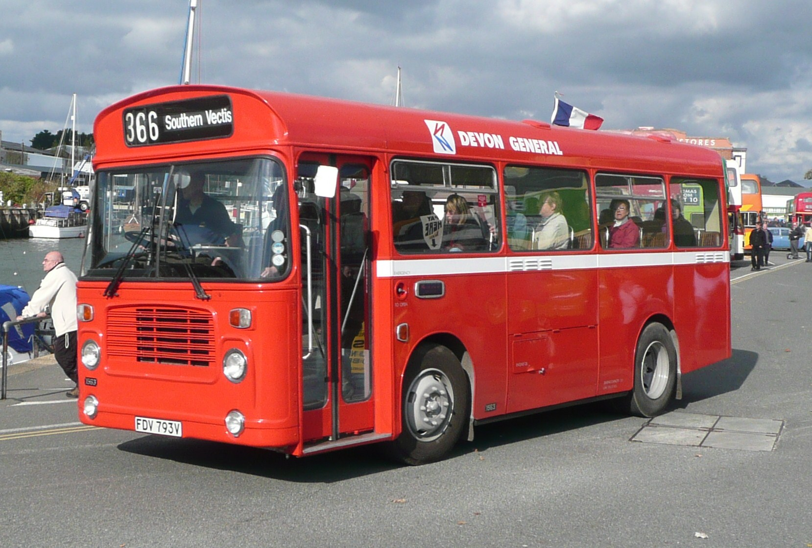 A now preserved Bristol LH, previously run by Devon General as their 1563 (FDV 793V). The bus is in the National Bus Company version of livery and is at the 2008 Isle of Wight bus museum running day.